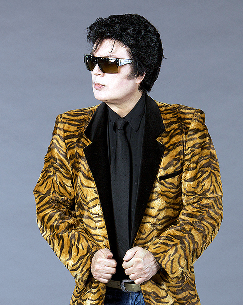 Fancy fotoshooting in Munich 2009